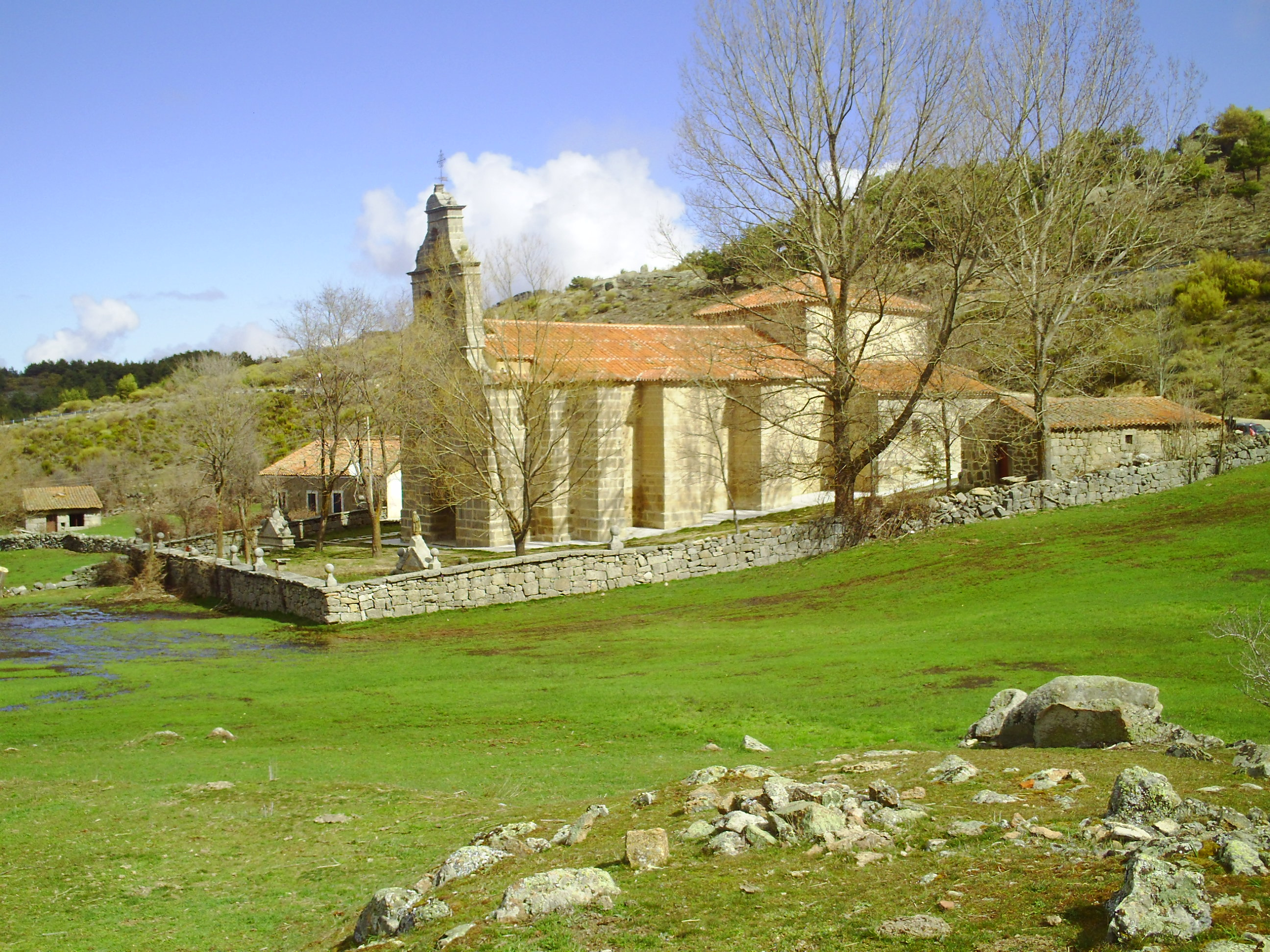 Hermitage of Our Lady of the Springs (San Juan de Olmo, Ávila, Spain)